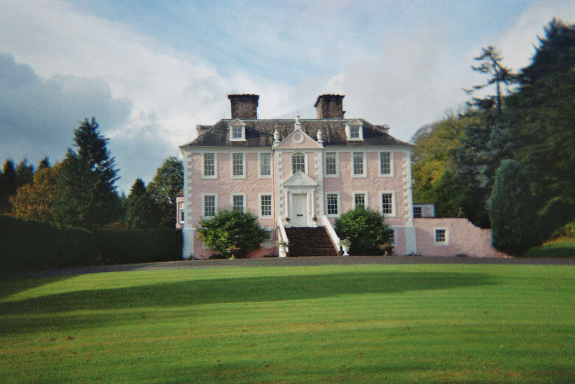 Craigdarroch House, Moniaive, Dumfriesshire, Scotland ...My own photograph taken Autumn 2005